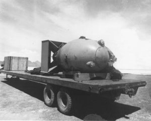 A Pumpkin bomb on a truck.